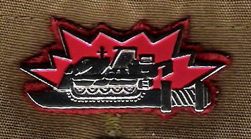 Military pin of Combat Engineering Vehicles (TZAMA) operator